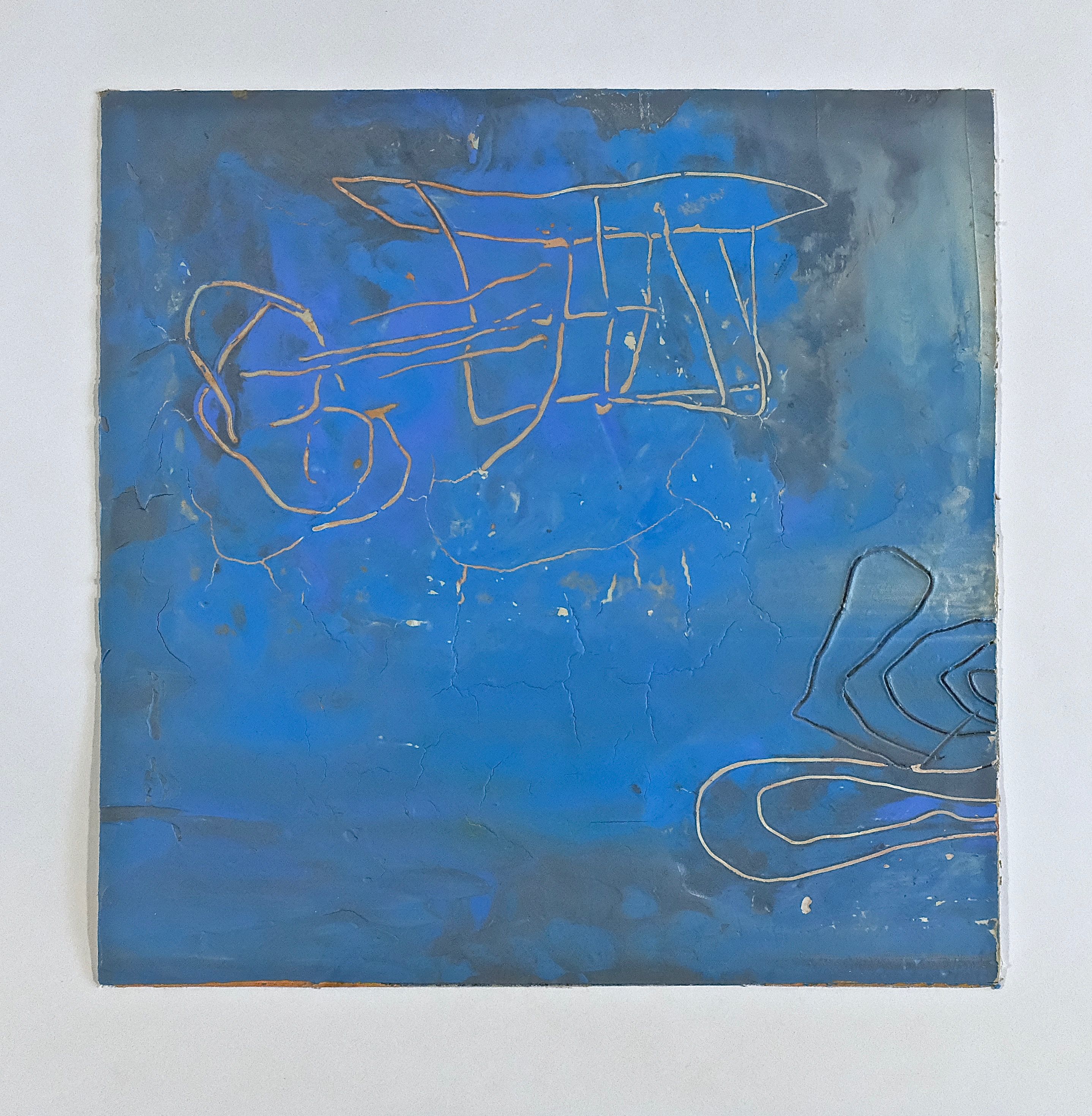 Matt Baumgardner, 2017